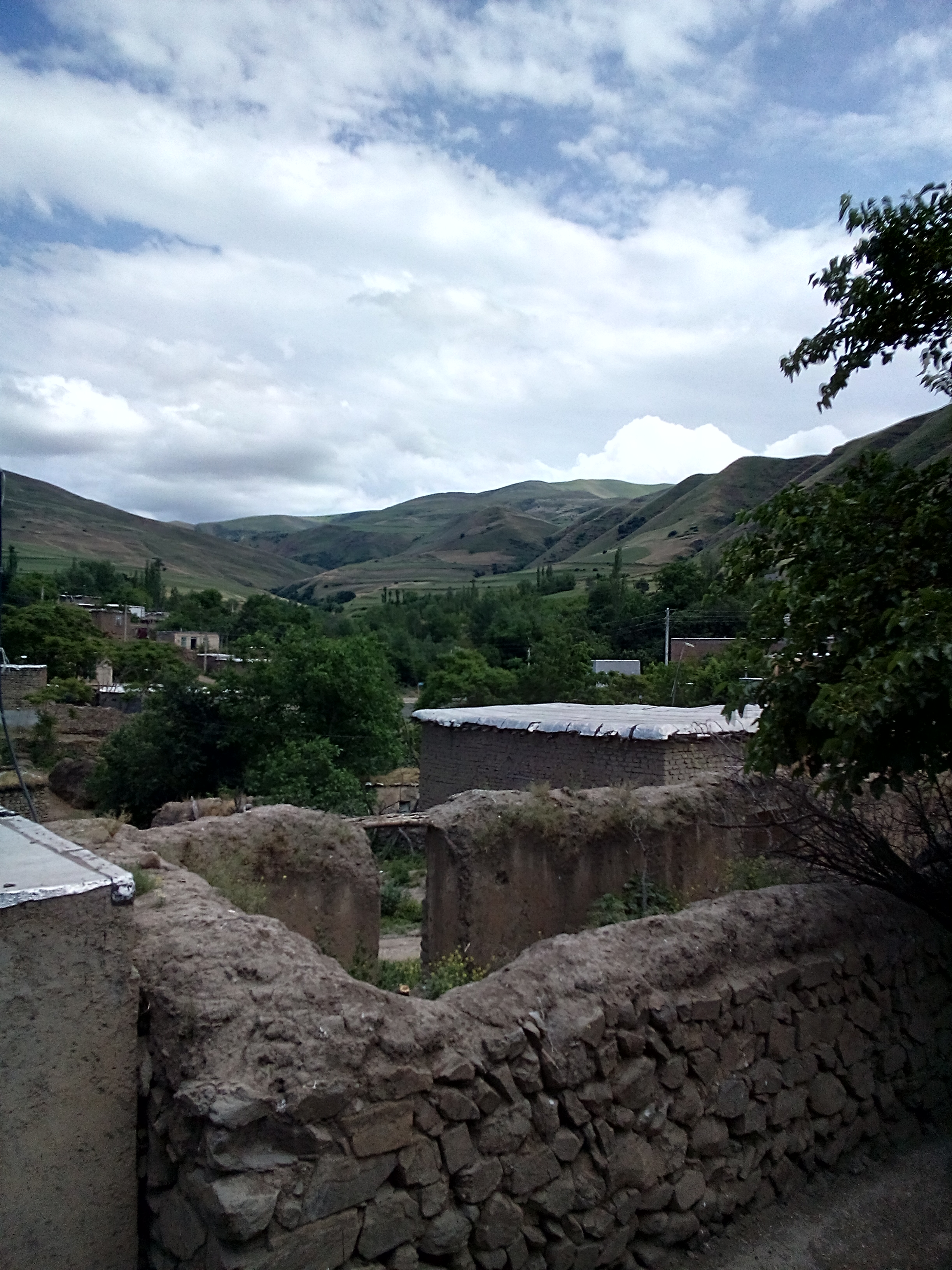 Tappeh Village from Iran Azerbaijan with blue sky